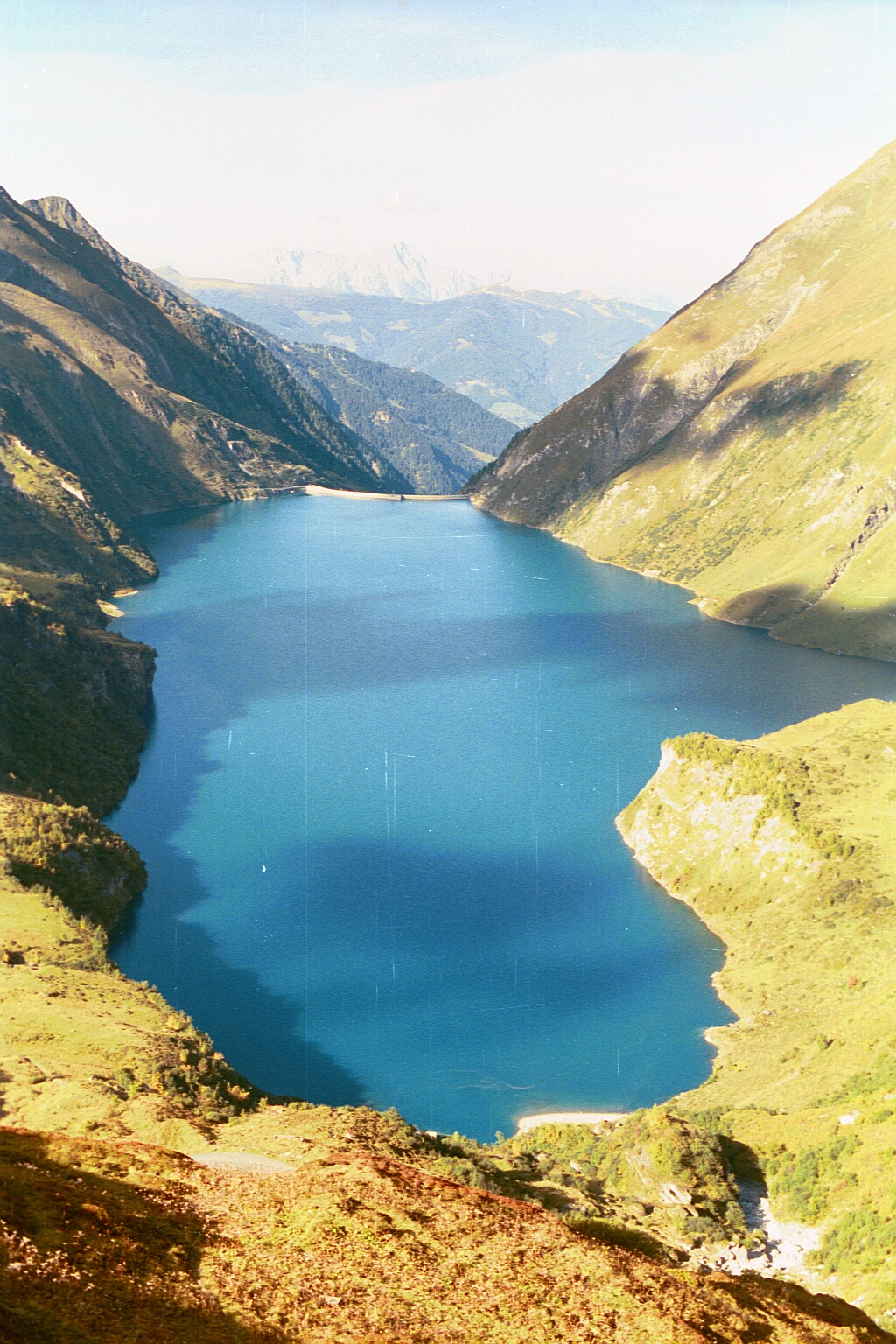 The Stausee Wasserfallboden, the lower of two reservoirs on the Kapruner Ache river above Kaprun in Land Salzburg, Austria. Viewed from the dam of the Stausee Mooserboden.